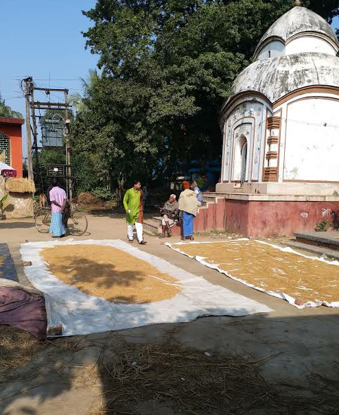 Temple in Bonkrishnapur